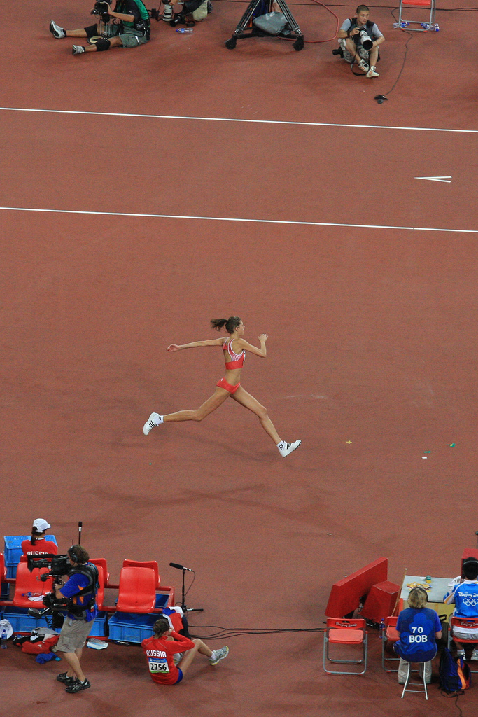 Blanka Vlašić at the 2008 Summer Olympics in Beijing